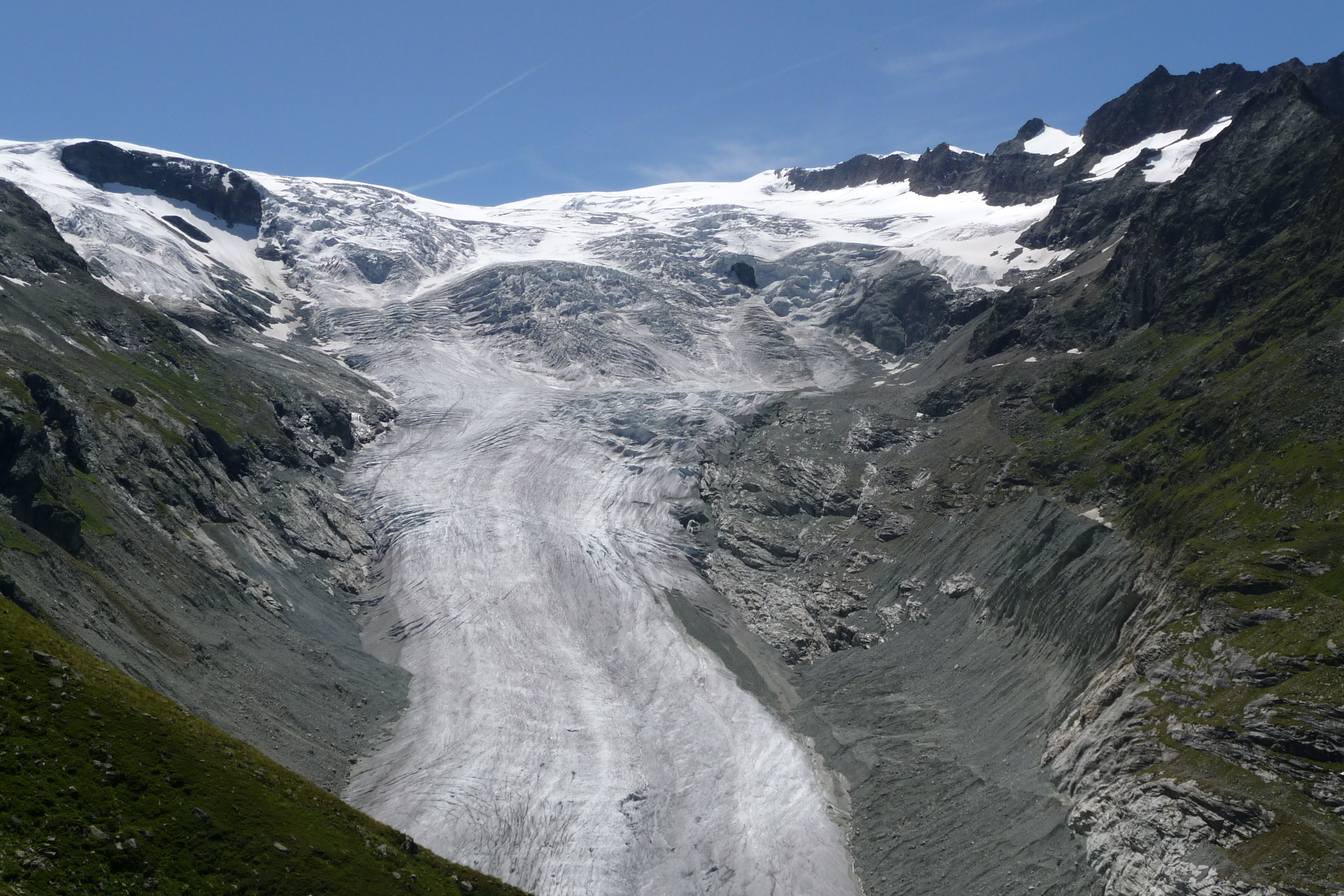 Glacier de Ferpecle and left the vertical Mota Rota rock in the ice